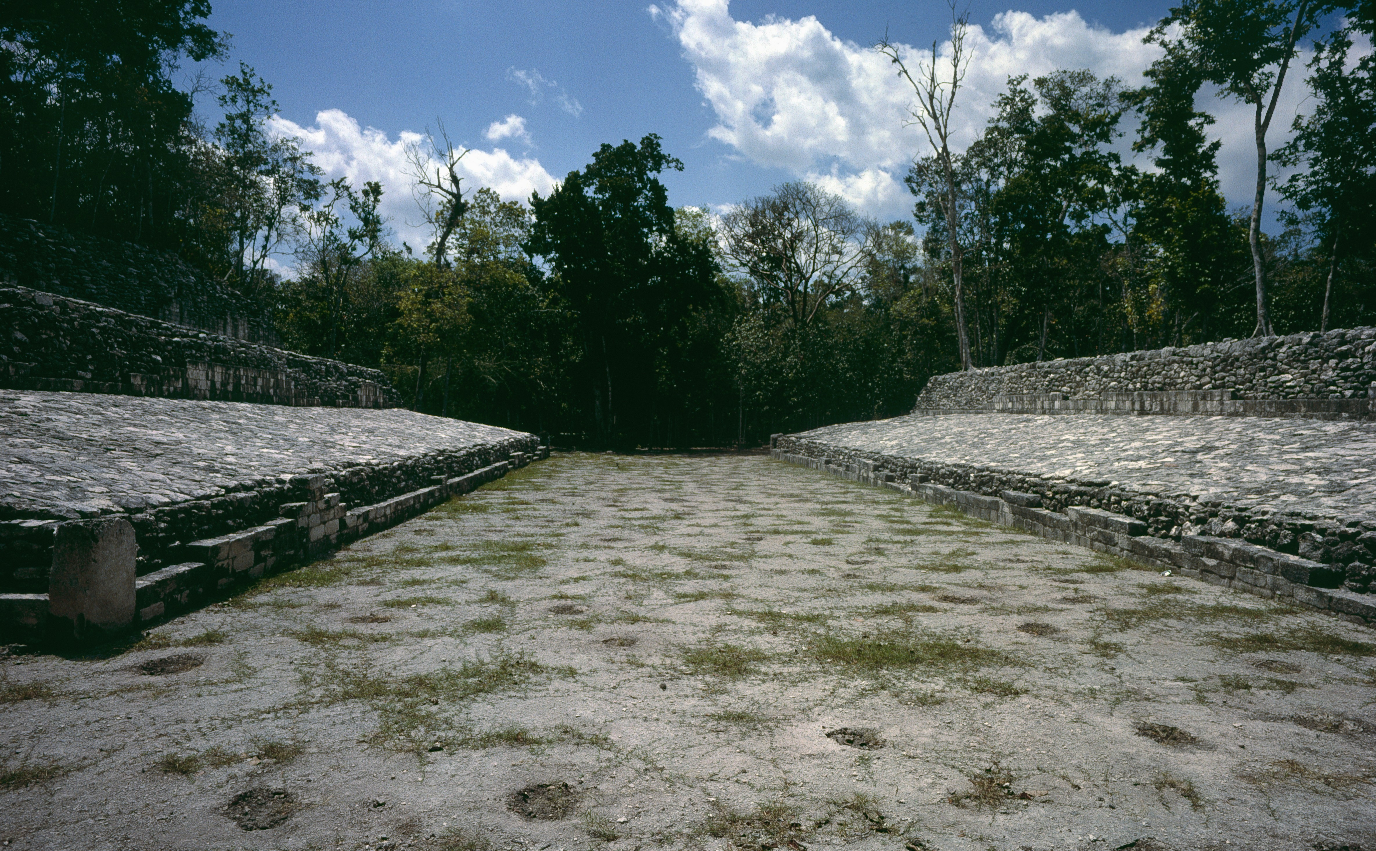 Becan, Campeche, Mexico: Ballcourt